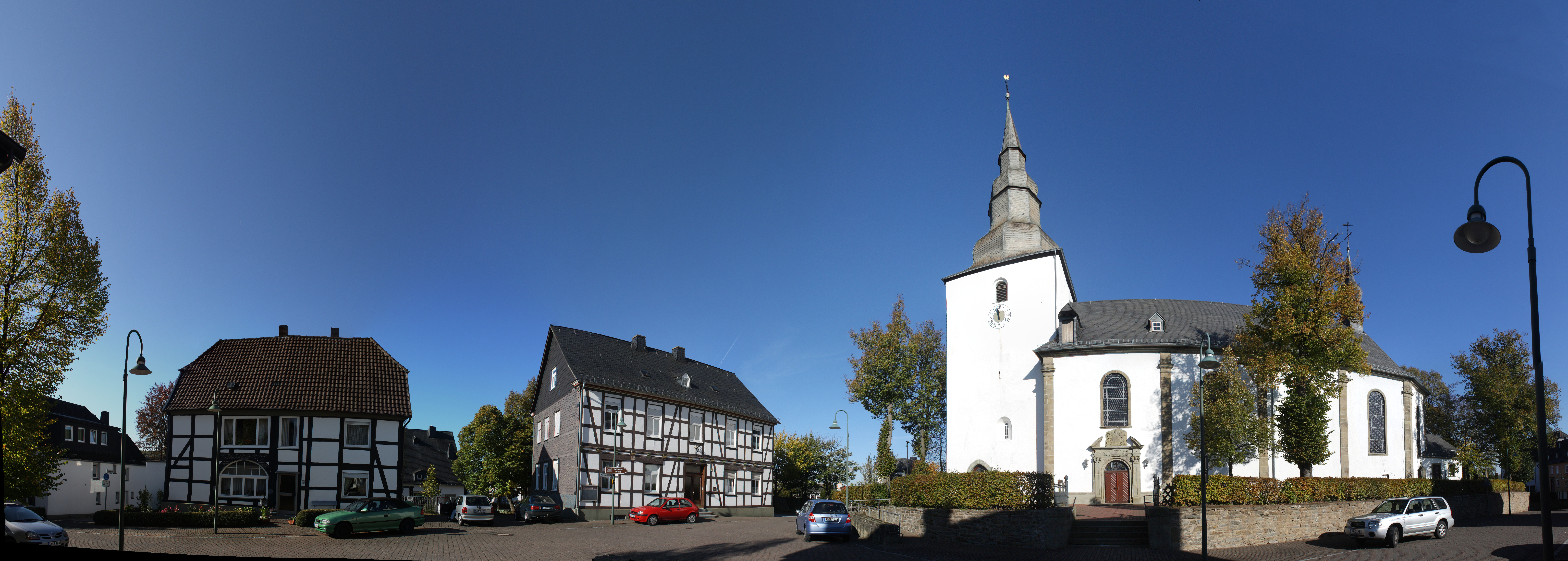 Saint Pancras Church in Belecke on a nice day in fall, Panorama featuring rectilinear projection